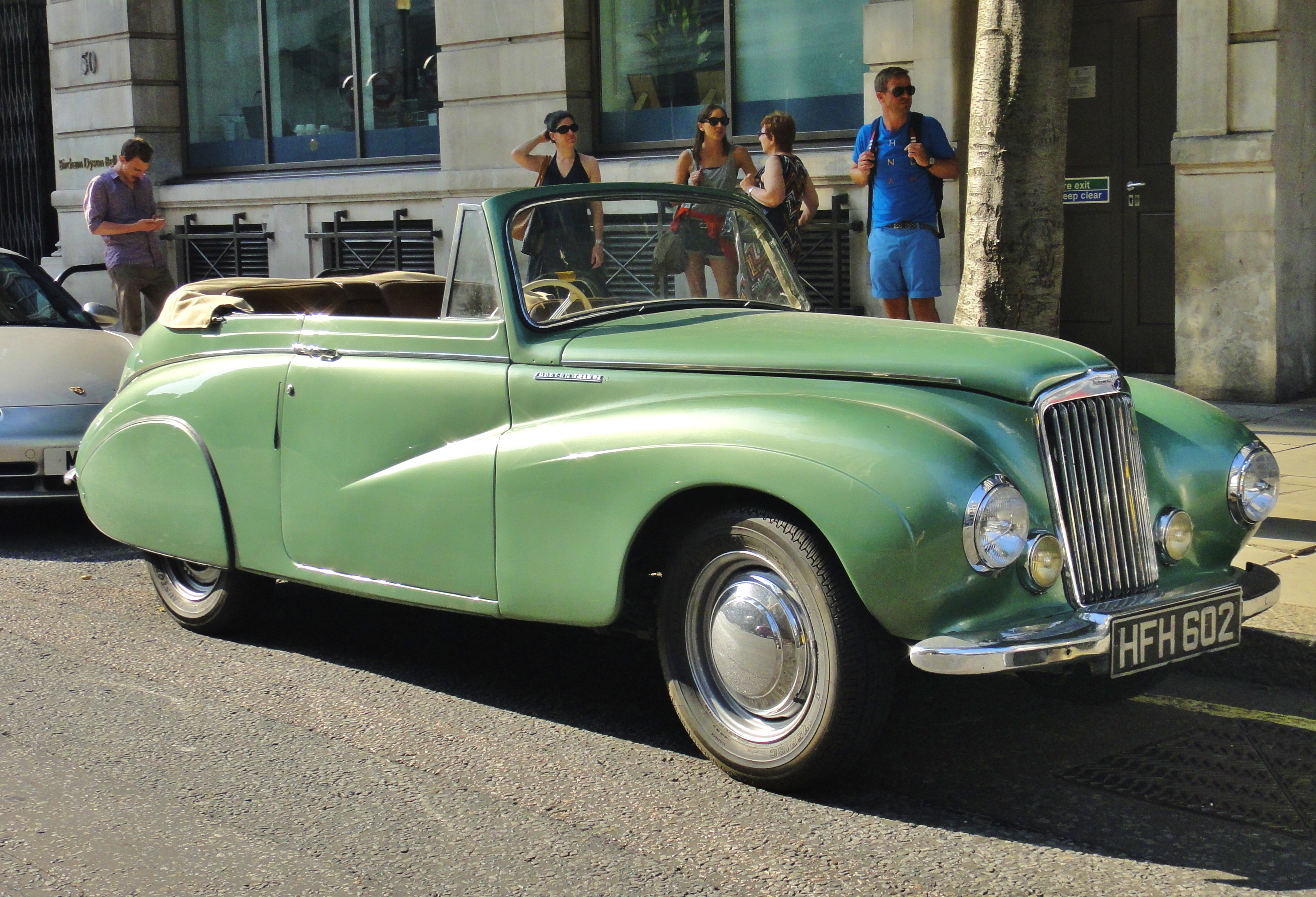 Sunbeam Talbot 90 convertible (DVLA) first registered 27 October 1950, 1944 cc Gleaming in the Sunshine - Side - Westminster - July 2013